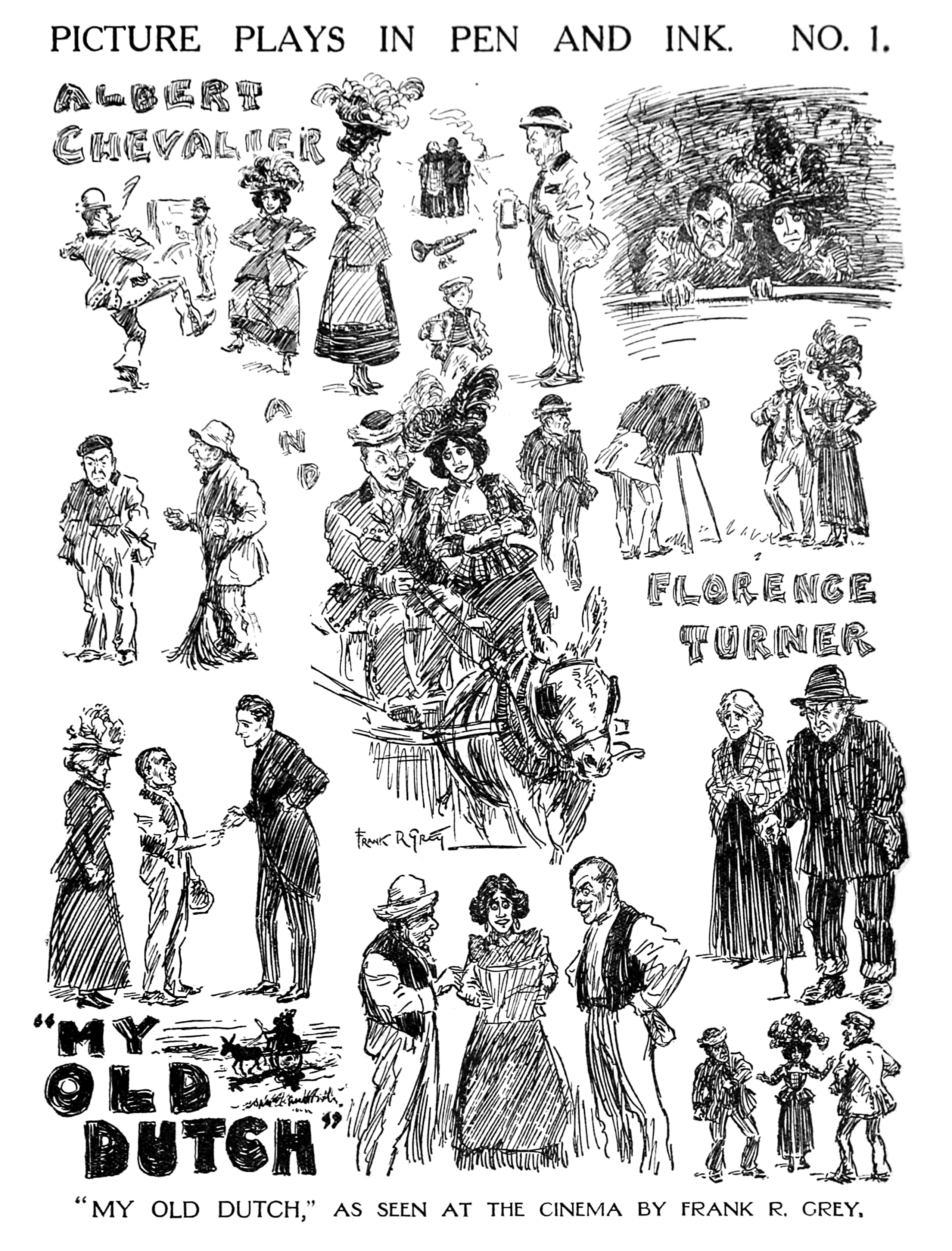 Drawing illustrating scenes from the 1915 film My Old Dutch